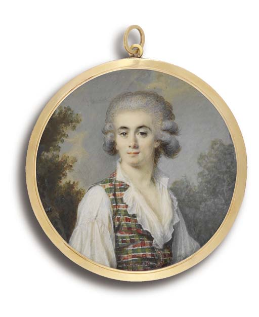 Marie-Thérèse de Noireterre. A young gentleman, in red and green checked waistcoat, open white shirt with frilled jabot, powdered wig; foliate background